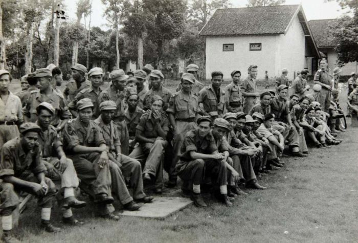 Soldiers watching soccer at the celebration of the 2nd anniversary of the KNIL Battalion Infantry V 'Andjing Nica' ("NICA Dogs")